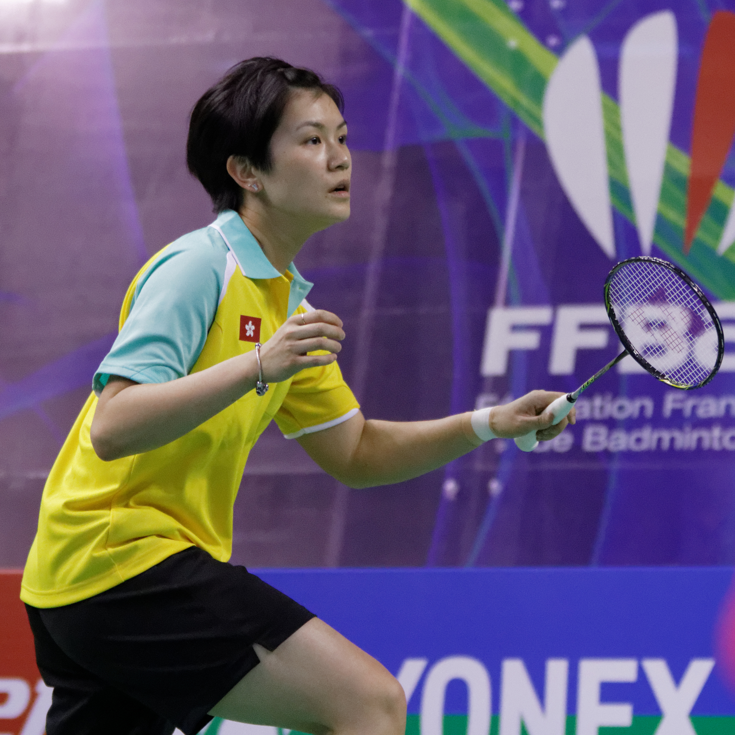 2013 French open. Mixed's doubles eightfinal. Lee Hei-chun - Chau Hoi Wah vs Xu Chen - Ma Jin.